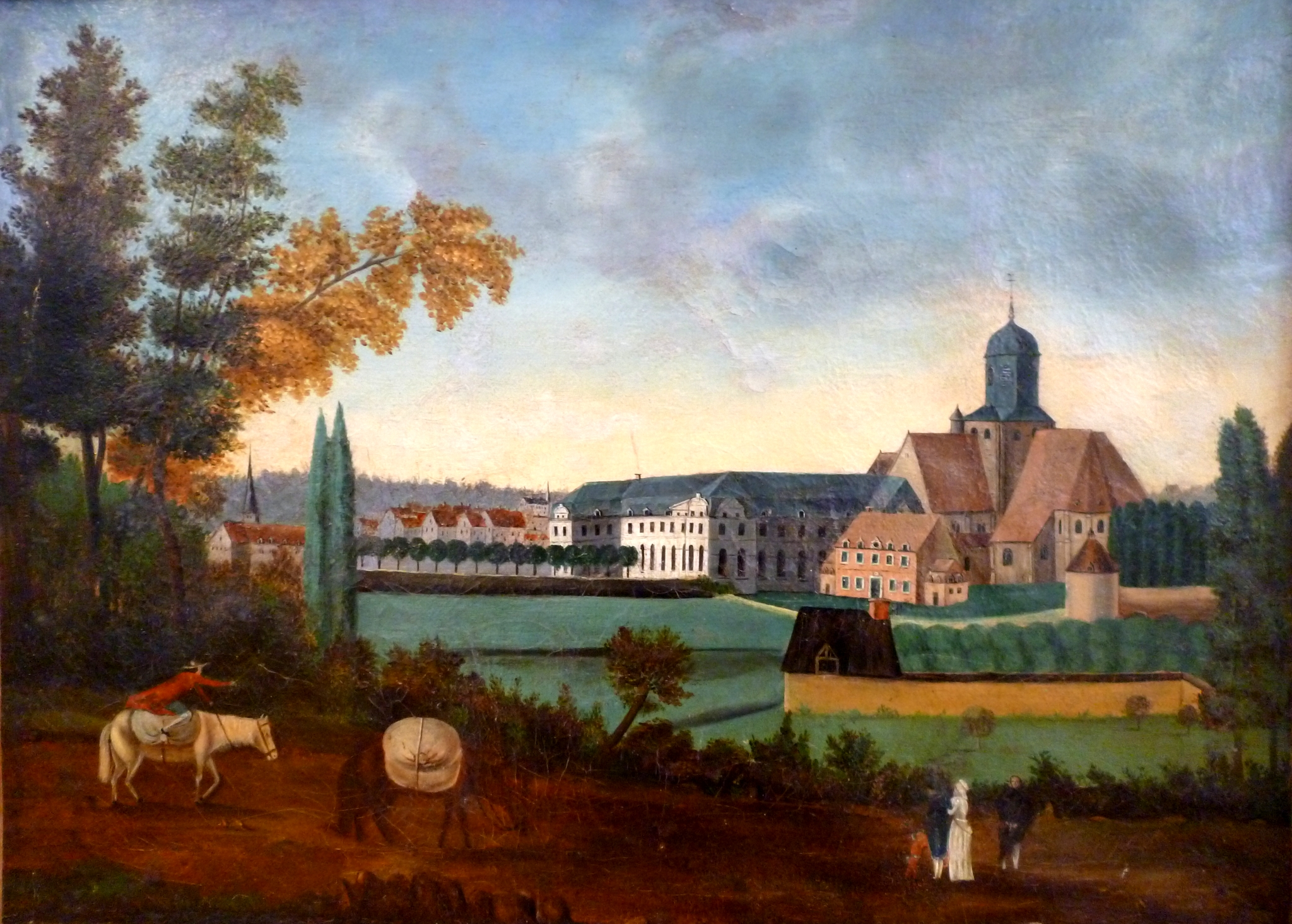 The abbey of Bernay before the revolution